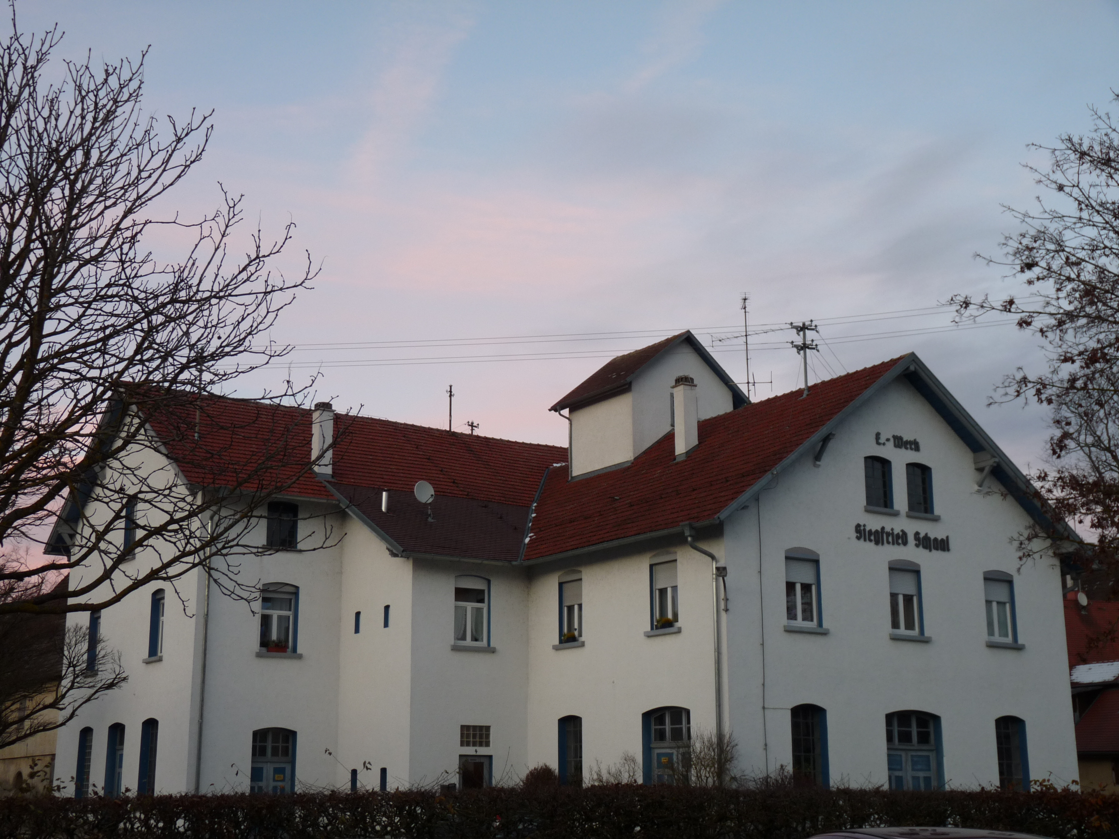 The house in which the founder of Argentinian town Rafaela, Guillermo Lehmann (also called Wilhelm Lehmann) was born in 1840. The house is in German village Sigmaringendorf.